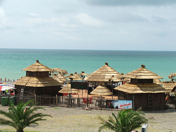 beach